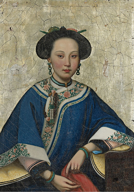 Xiang Fei- better known as the Fragrant Concubine. seated with one arm poised on a table, hands resting in the lap gathering up a swathe of fine red silk, wearing a crisp blue silk robe bordered with elaborately embroidered roses and butterflies, the hardstone clasp suspending a string of pearls and bright green jadeite beads, with a pair of matching jadeite and gold bangles on each wrist and a pair of jadeite and gold triple-loop earrings, the long black hair pulled up and secured with jadeite and flower hair pins, her oval face of pale complexion with a slight blush in the cheeks, the dark almond-shaped eyes with direct, open gaze, the background gilt, wood frame.